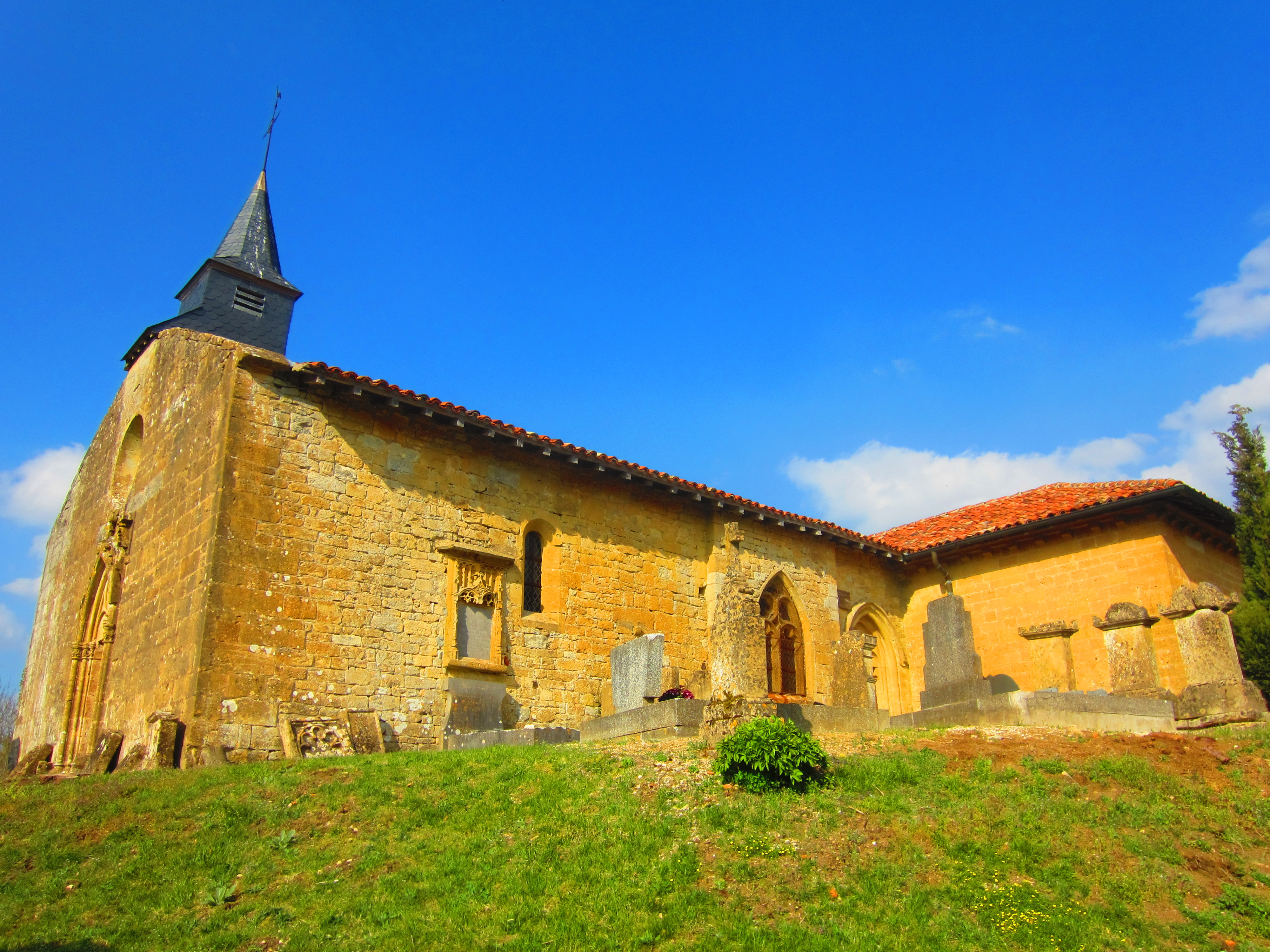 Marville St Hilaire church